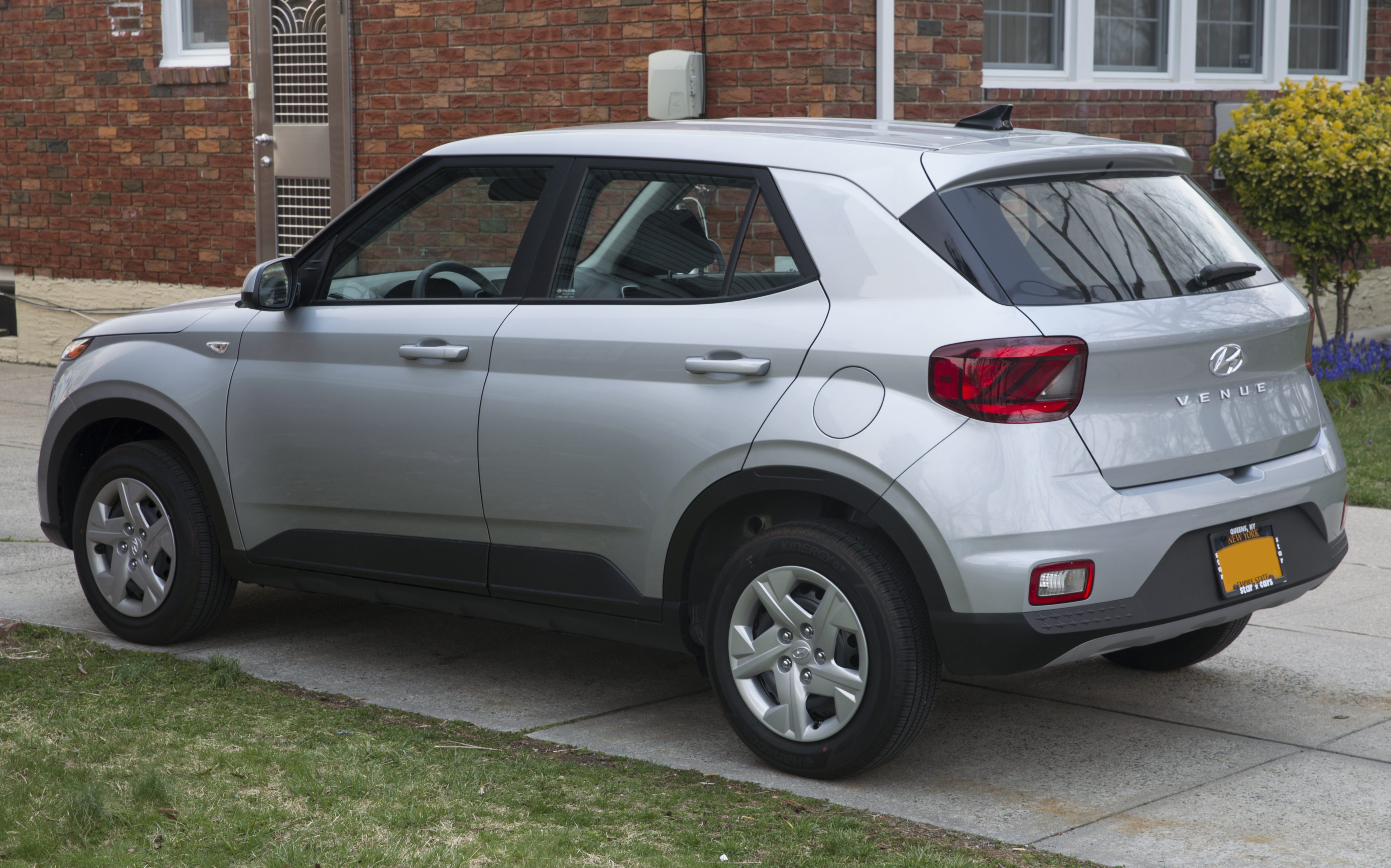 A 2020 Hyundai Venue SE FWD CVT in Stellar Silver.